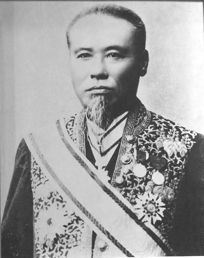 Portrait of Baron Iwamura Michitoshi. He was a politician and a cabinet minister during the Meiji period (July 8, 1840 – February 20, 1915).